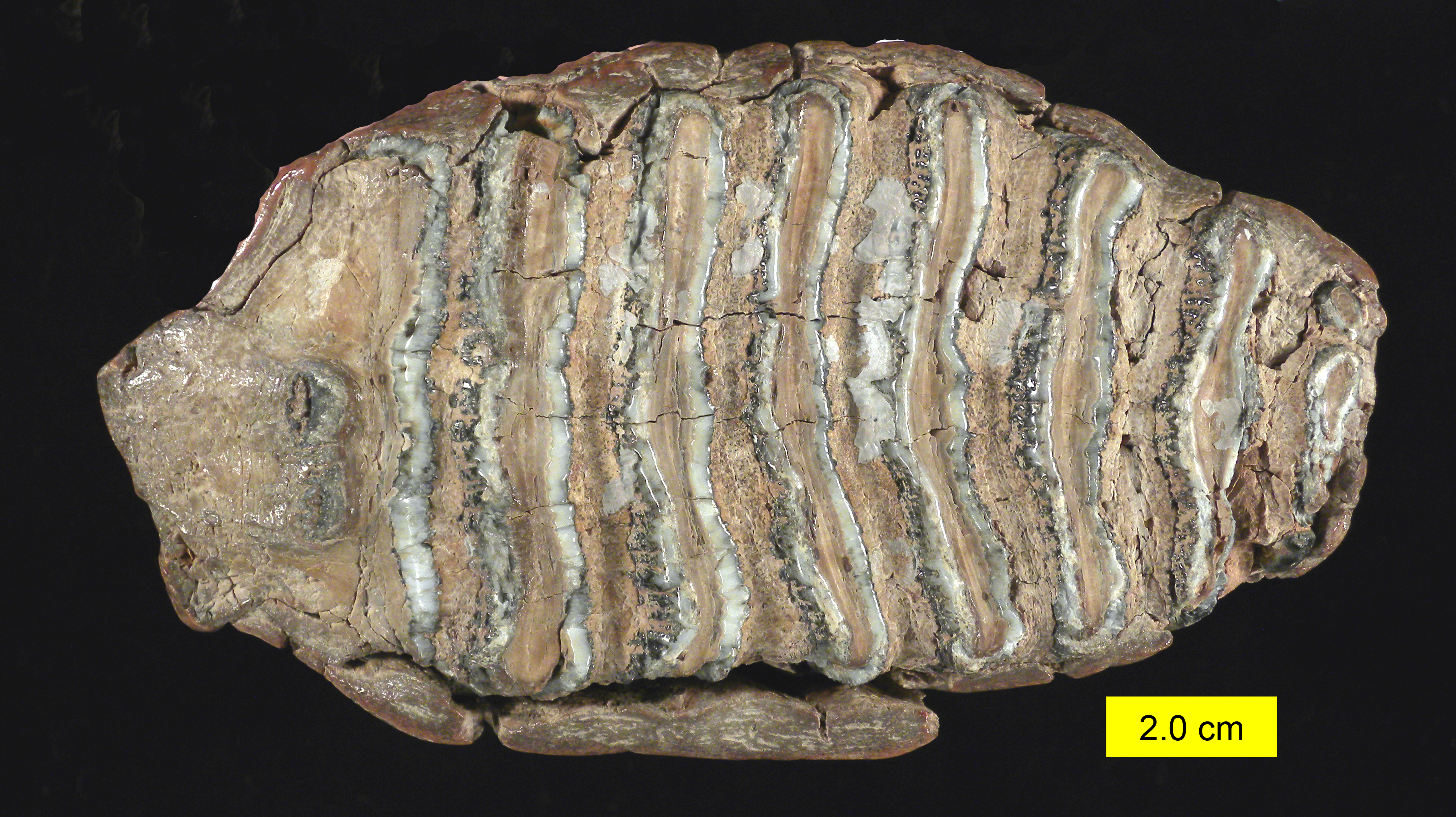 Mammuthus tooth surface from the Pleistocene of Homes County, Ohio.